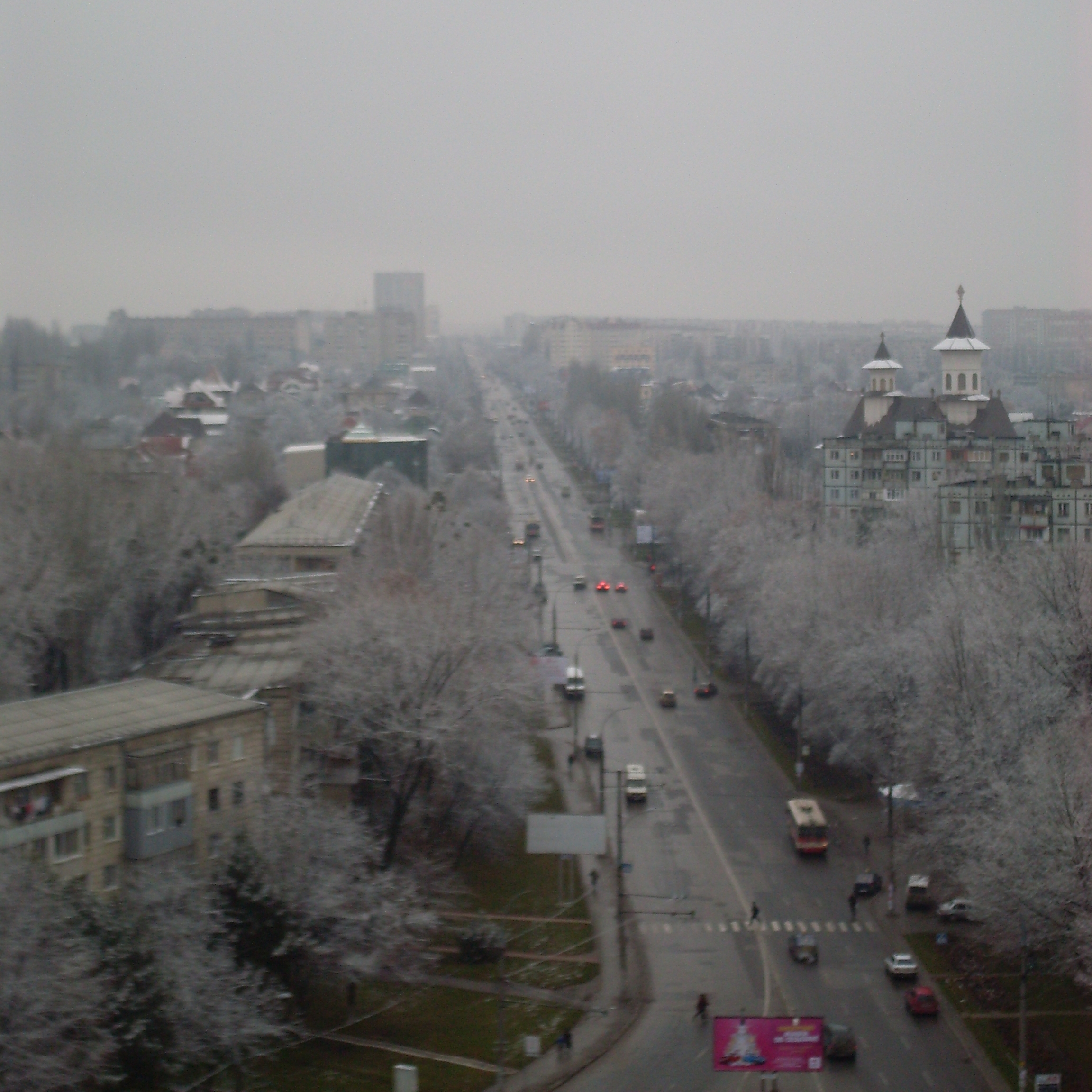 Alba Iulia street of Chisinau as seen from a building near Union of Romanian Principalities square